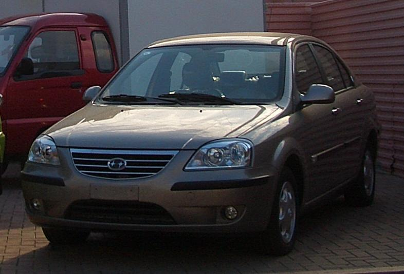 Hafei Saibao